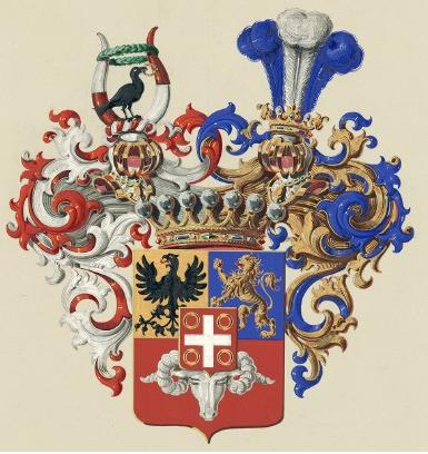 Coat of Arms of family Gerschau-Flotow